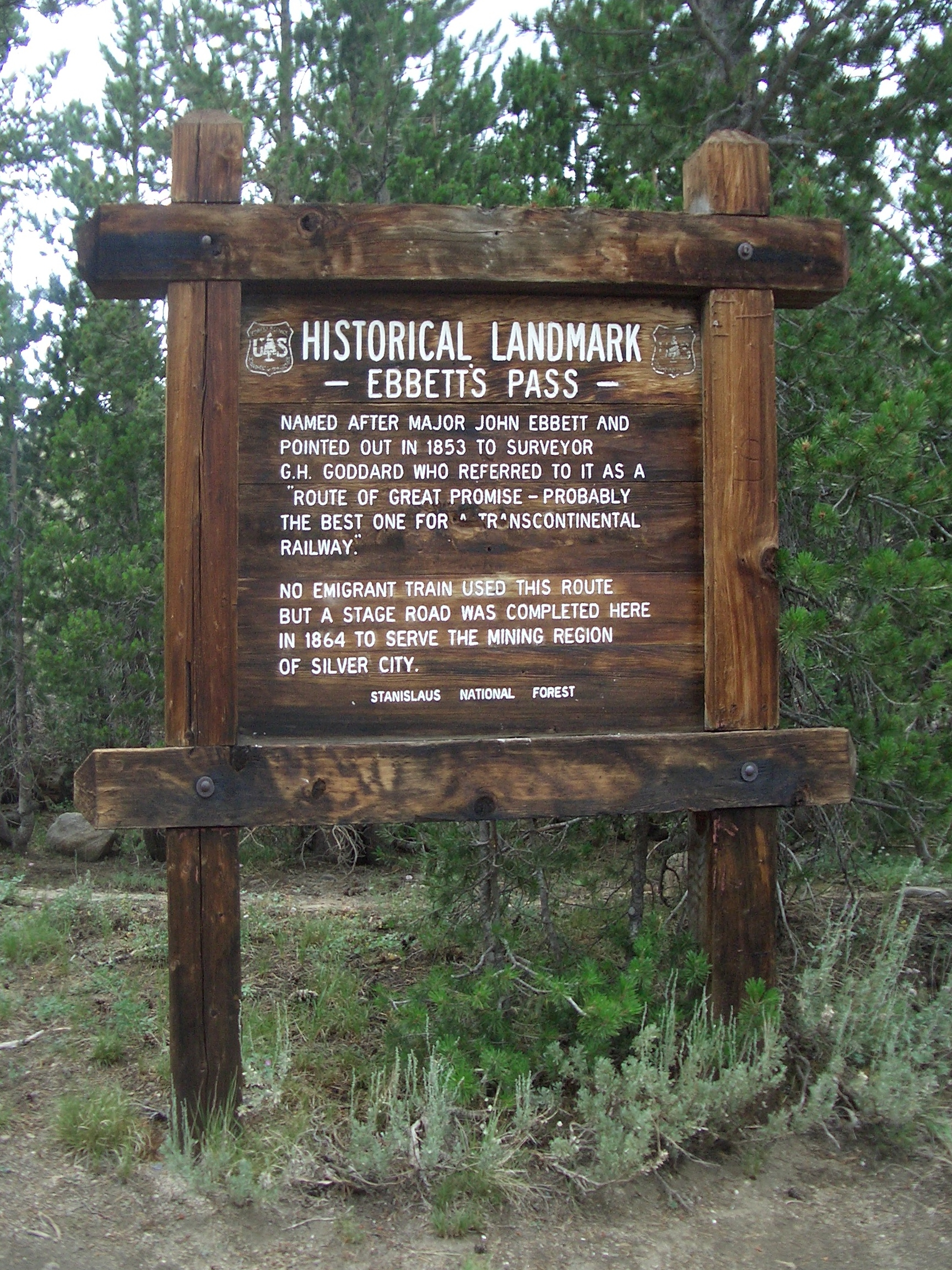 Historical sign at Ebbetts Pass, Sierra Nevada, California